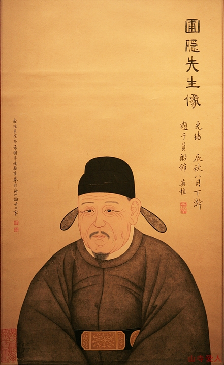 Portrait of Jeong Mongju in the late Goryeo dynasty